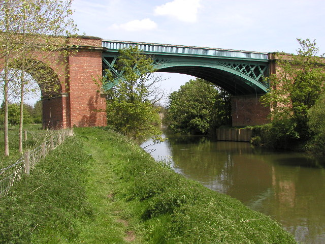 The railway bridge at Stamford Bridge, East Riding of Yorkshire, England.This structure still stands firm forty years since the Hull to York railway line ran over it. There are plans afoot to possibly use it once again in the future perhaps for the same purpose.